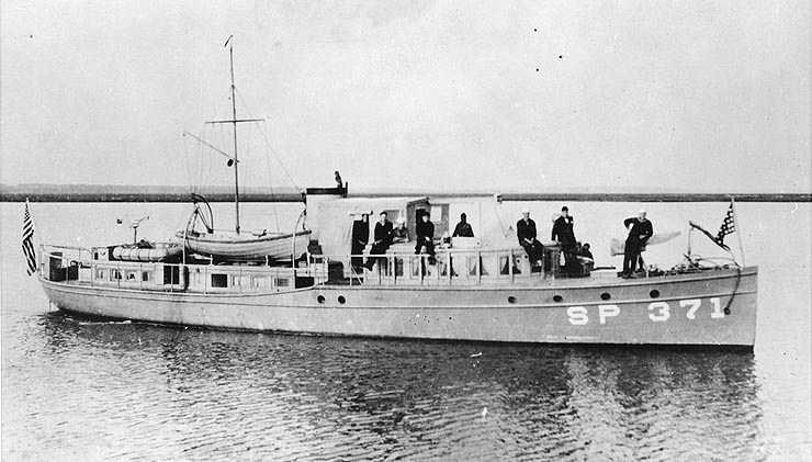 Removed caption read: Photo # NH 57710 - USS Absegami, photographed during World War I